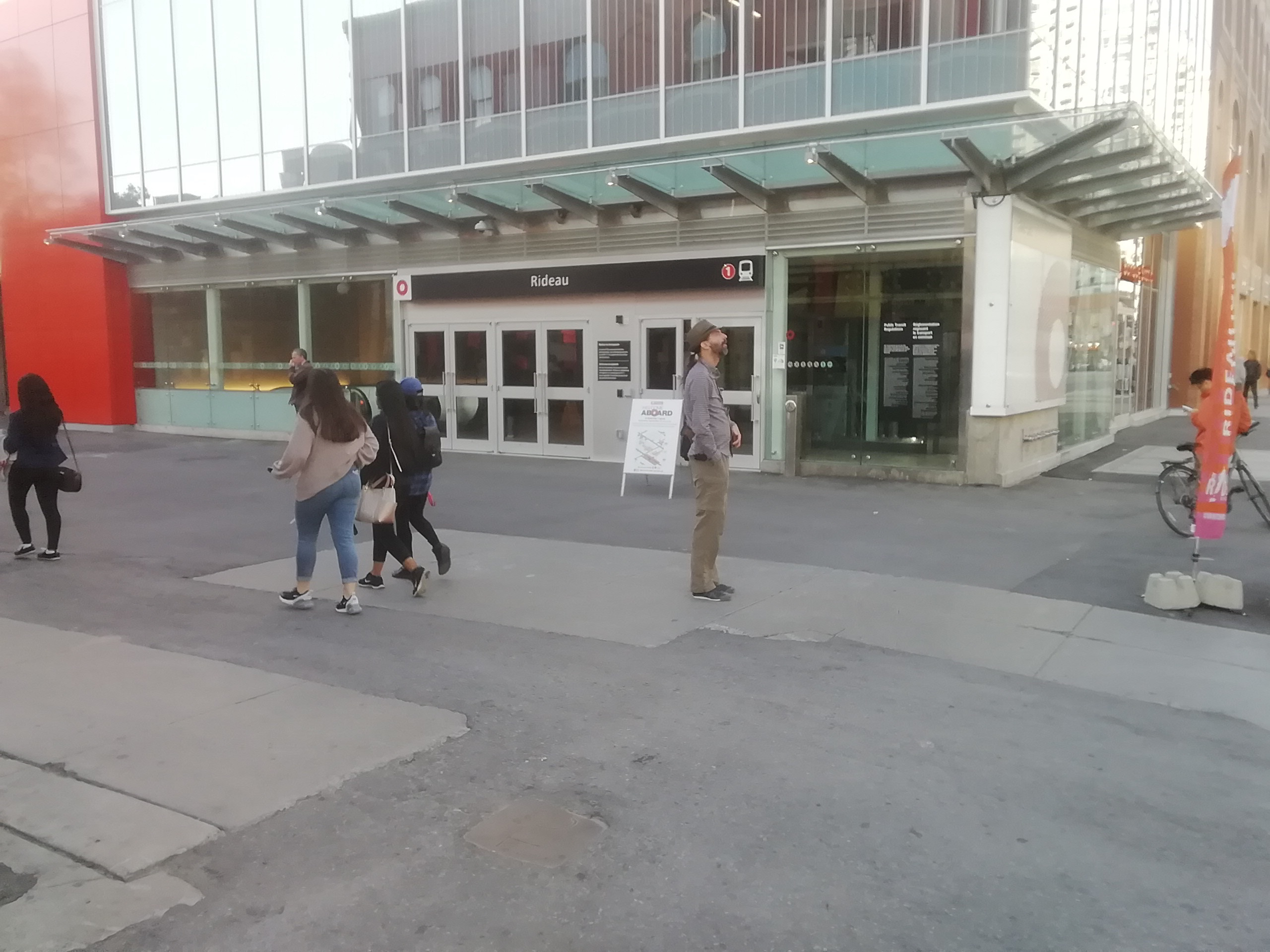 Entrance to Rideau Station, Ottawa